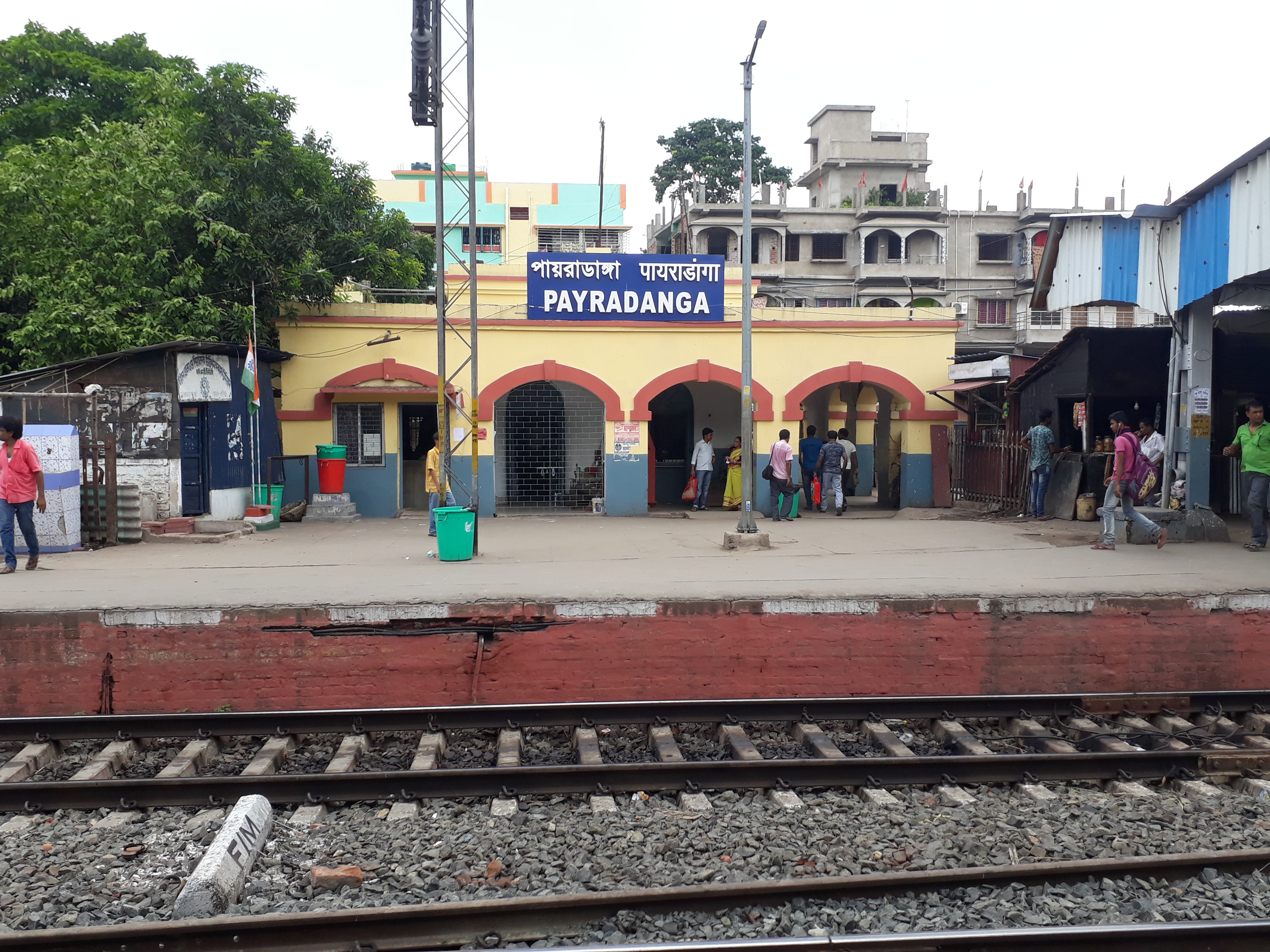 Payradanga railway station in Sealdah Ranaghat main line, Nadia district, West Bengal